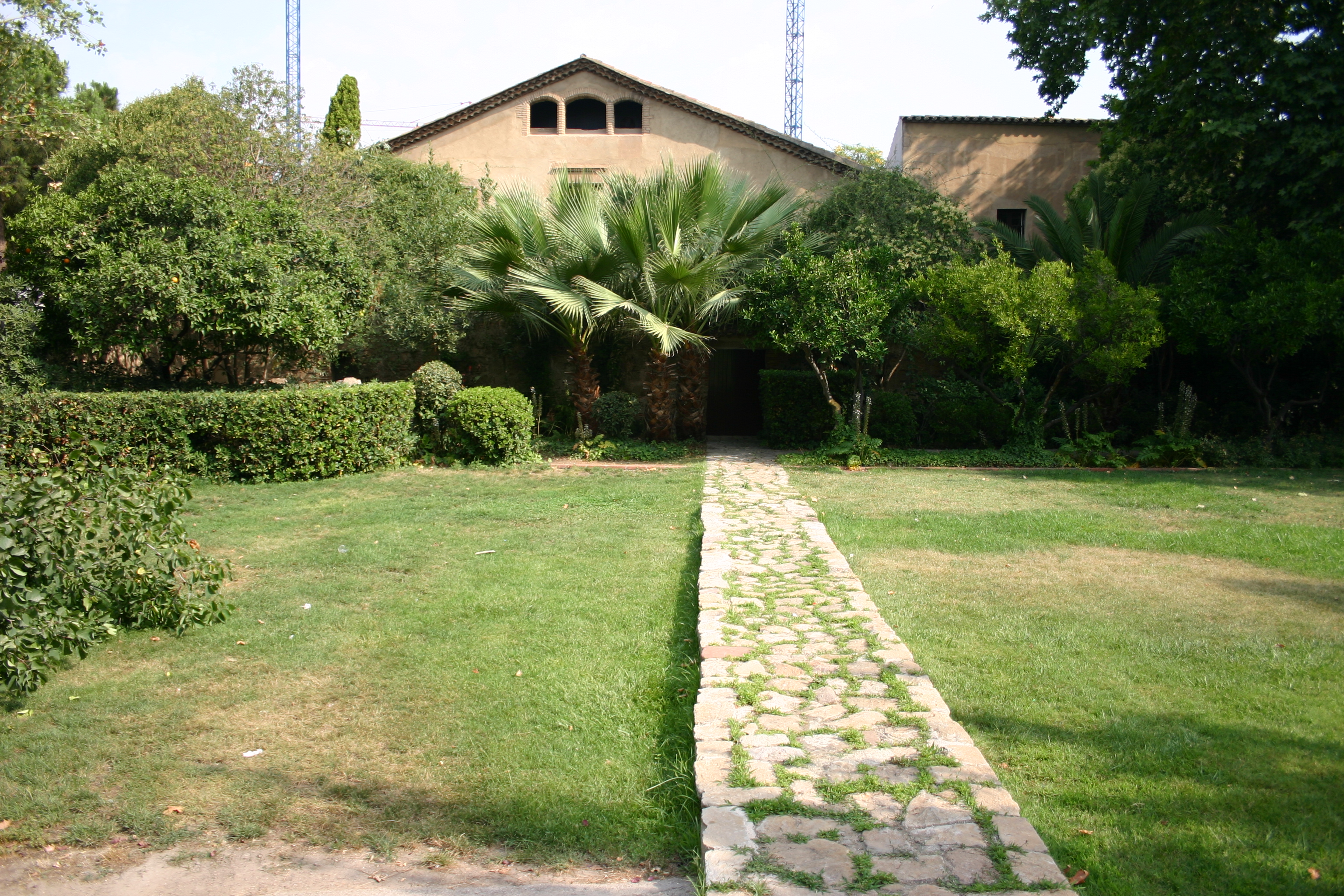 Xipreret street